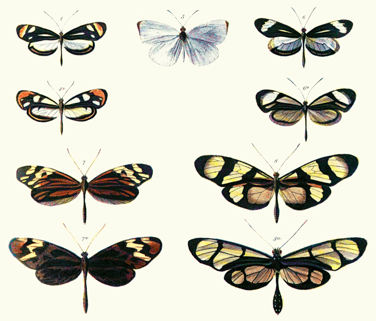 Plate from Bates (1862) illustrating Batesian mimicry between Dismorphia species (top row, third row) and various Ithomiini (Nymphalidae) (second row, bottom row)